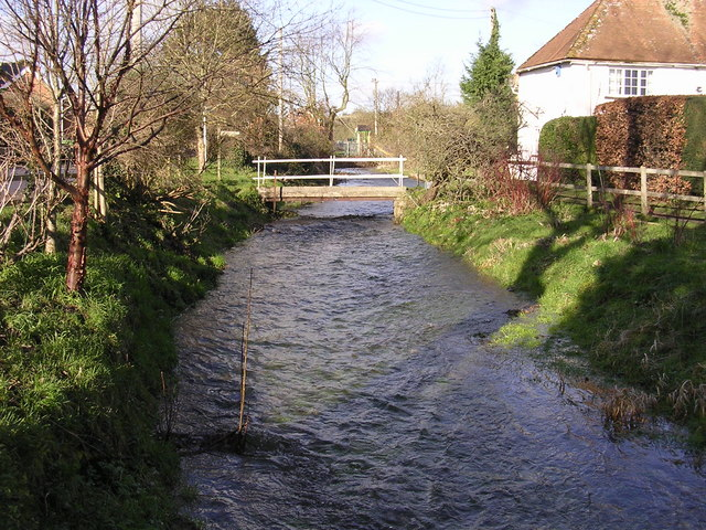 Bourne Rivulet at Stoke Looking northwest along the Bourne Rivulet. The river is a winterbourne which means it only flows from late winter when the water table is up.